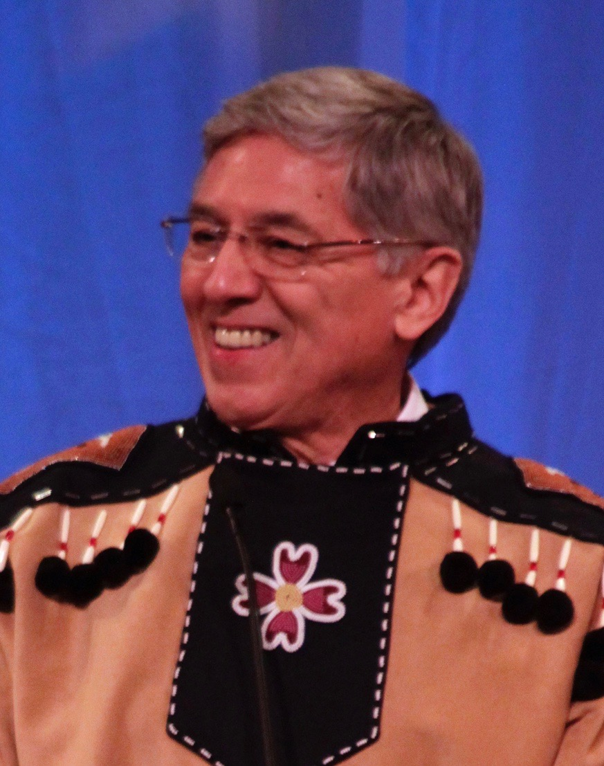 New Alaska Lt. Gov. Byron Mallott smiles after telling a joke during his inauguration speech Monday, Dec. 1, 2014 in Juneau, Alaska's Centennial Hall. Mallott, a Tlingit Alaska Native from Yakutat, wore traditional regalia during the ceremony. Cropped from original.